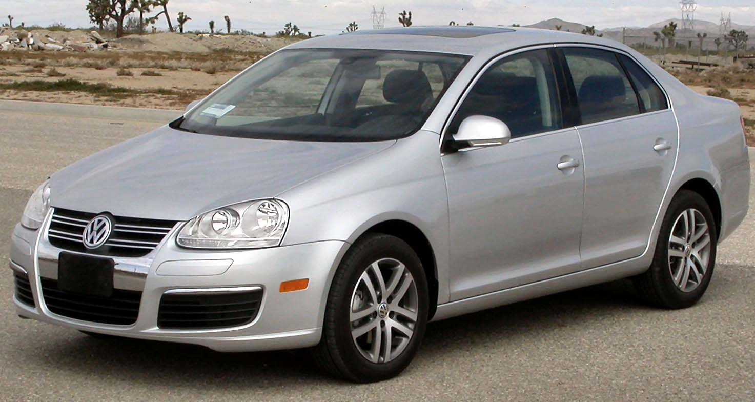 2005 Volkswagen Jetta photographed in USA.